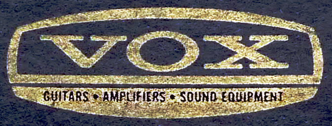 Vox full logo including product categories